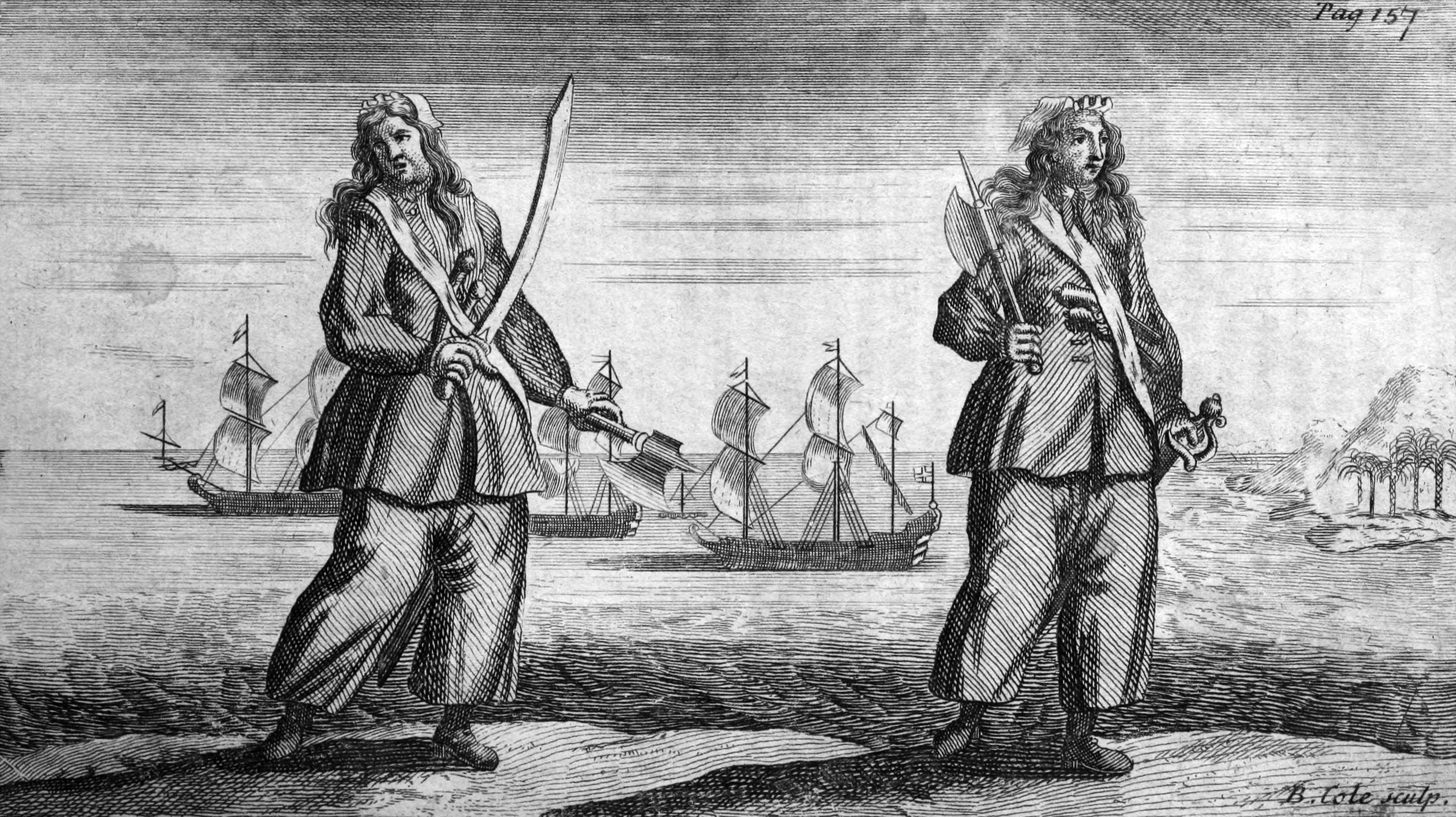 Ann Bonny and Mary Read convicted of Piracy Novr. 28th. 1720 at a Court of Vice Admiralty held at St. Jago de la Vega in a Island of Jamaica.:a copper engraving[1]